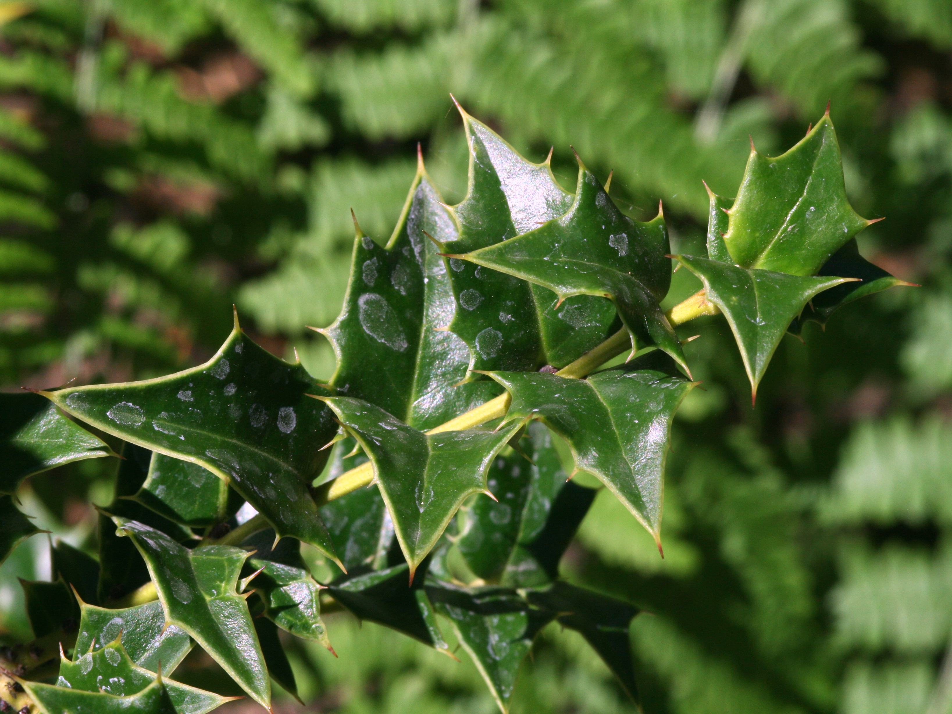 Ilex pernyi, Botanical Garden Brno, Czech Republic